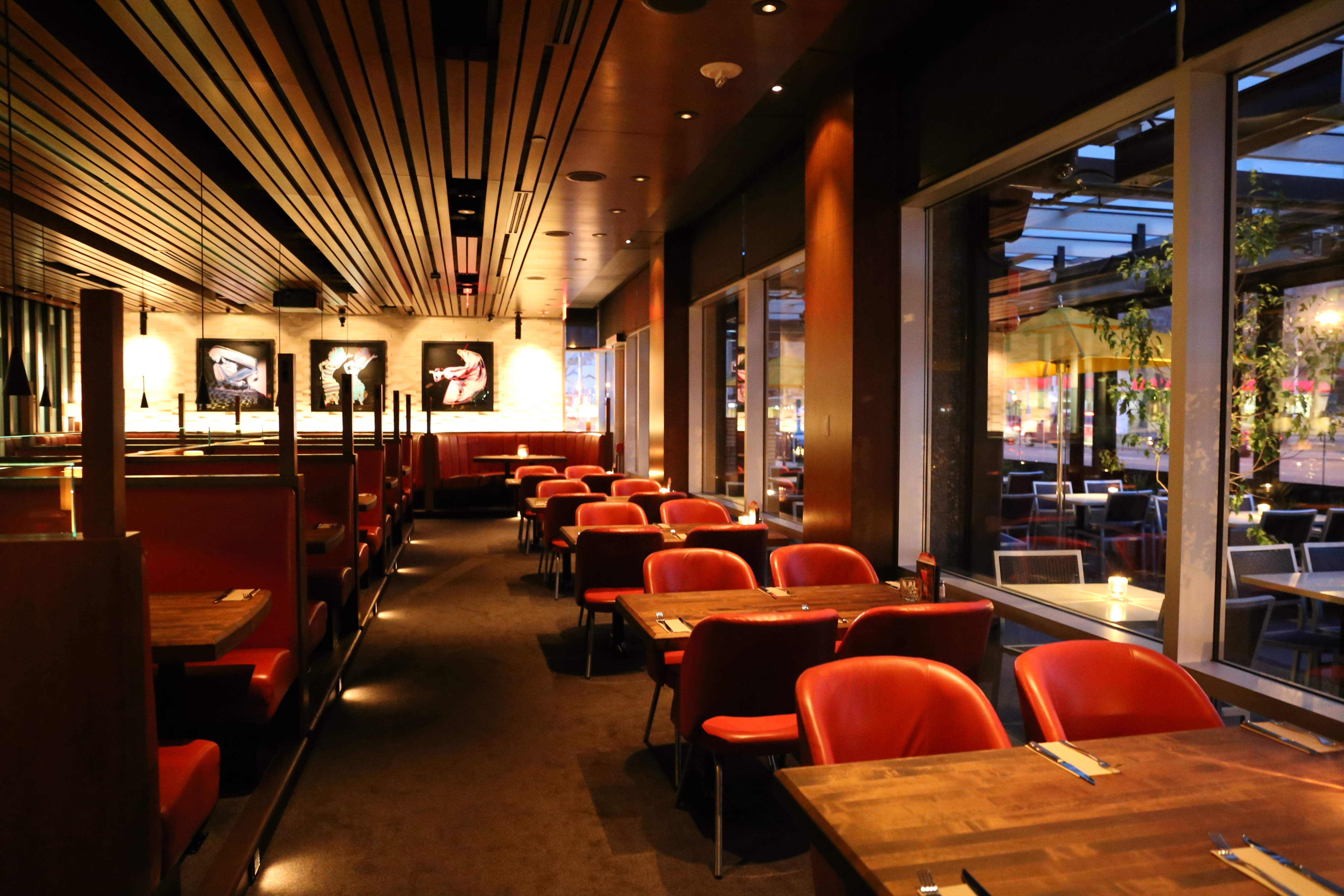 New location on Jasper Avenue between 111 and 112 Streets.